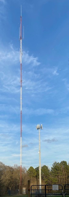 WNEA Transmitter and Tower as seen from Roberts Rd. in Newnan, GA in 2020.